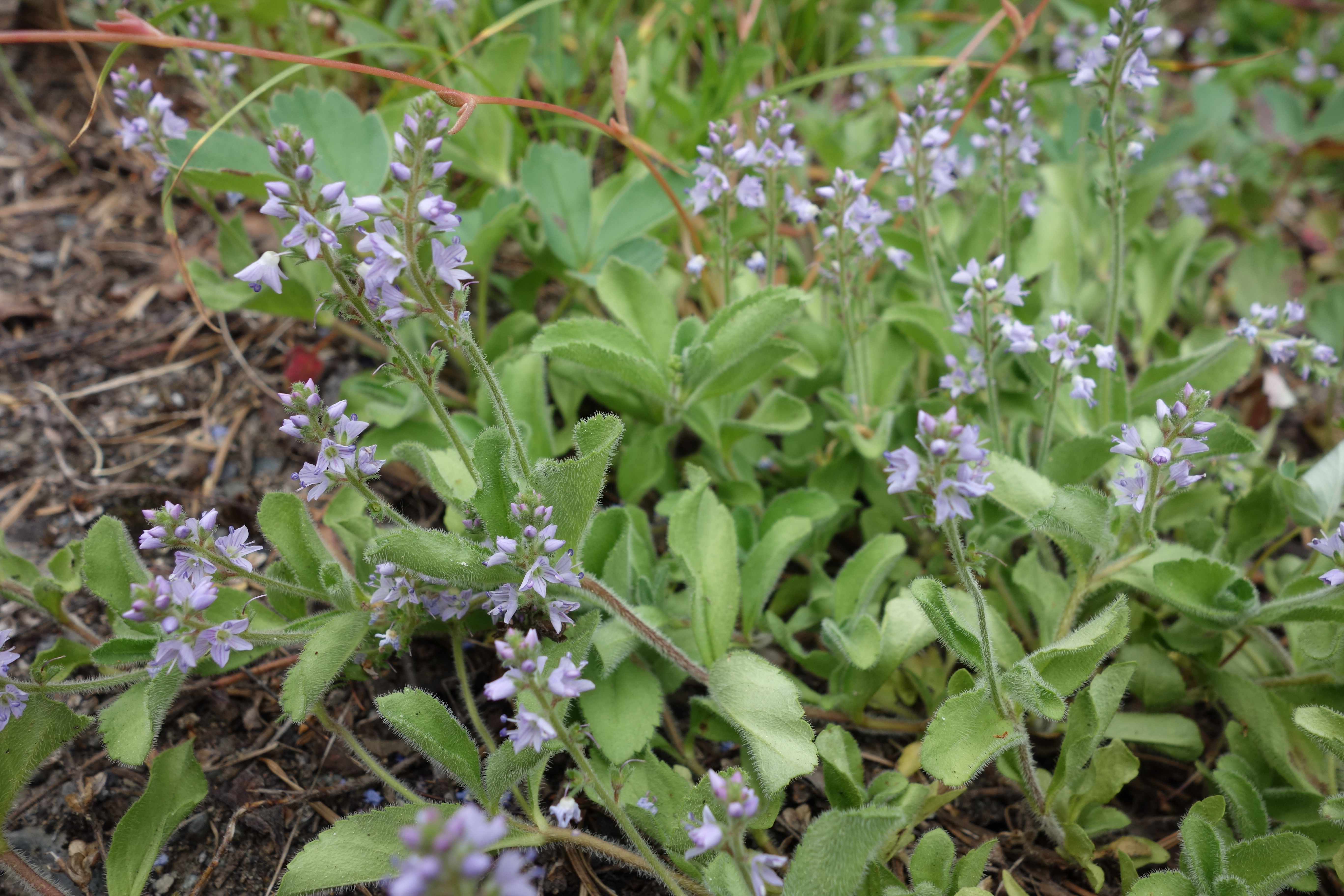 (Veronica officinalis) Learn more about this plant at NPS Photo